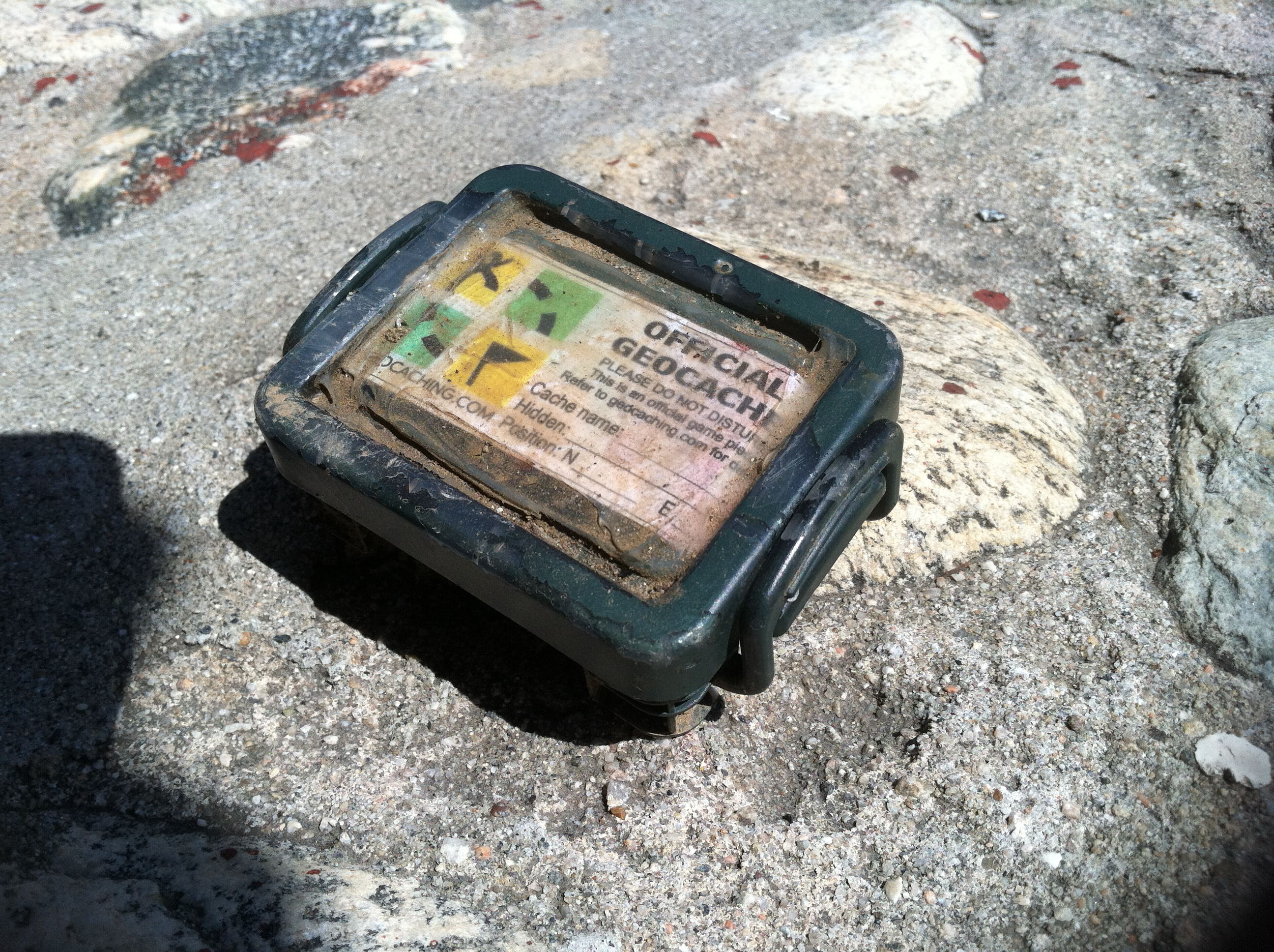 Official Geocache container widely used in the United States